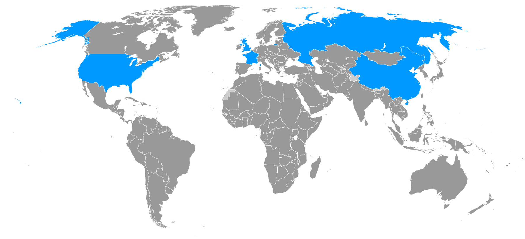 Permanent members of the United Nations Security Council.